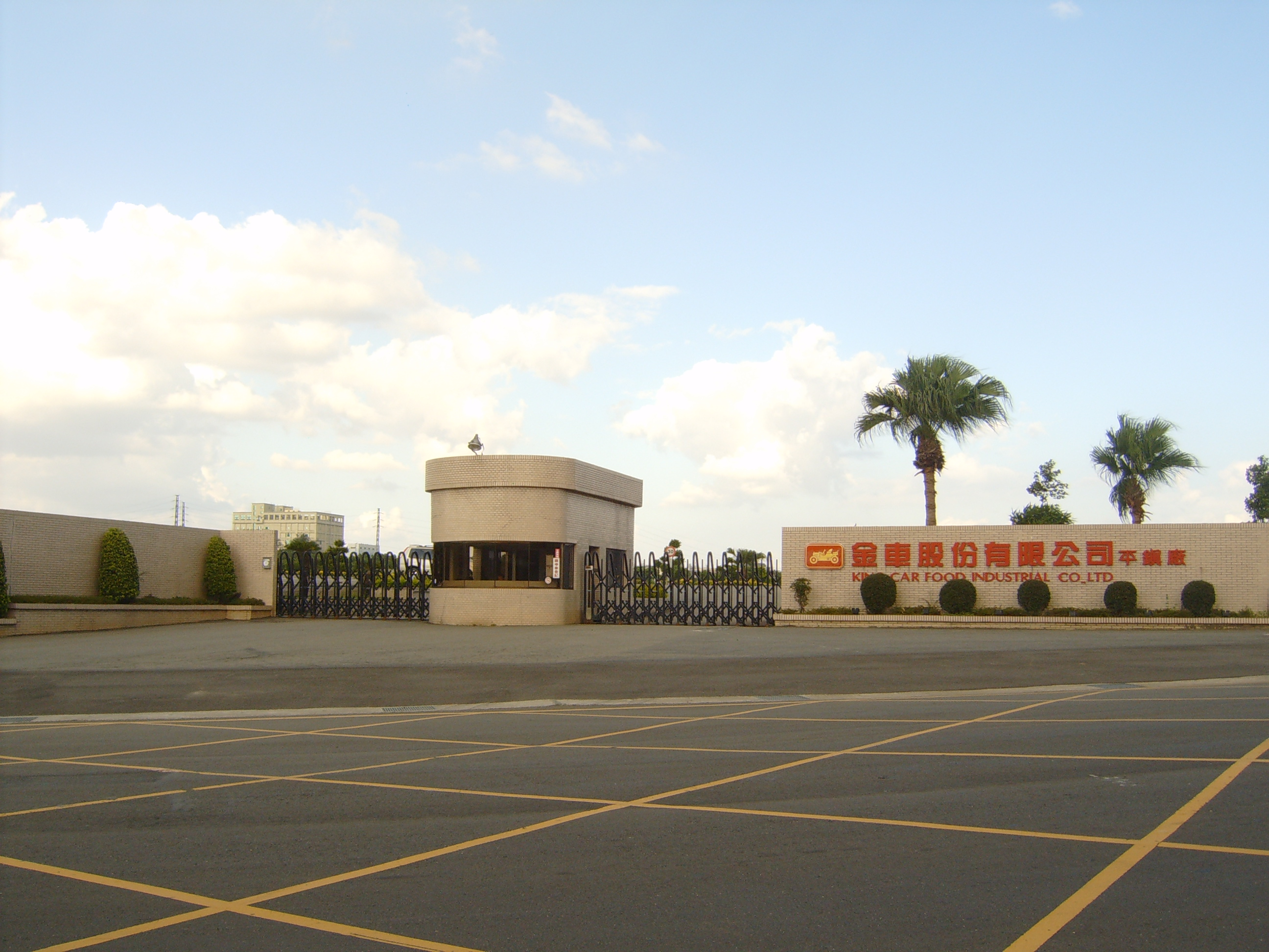 King Car Industrial Co., Ltd. for Factory in Pingjhen City, Taoyuan County, Taiwan.中文（中国大陆）: 金车股份有限公司平镇厂，位于台湾桃园县平镇市中兴路527号。中文（台灣）: 金車股份有限公司平鎮廠，位於臺灣桃園縣平鎮市中興路527號。